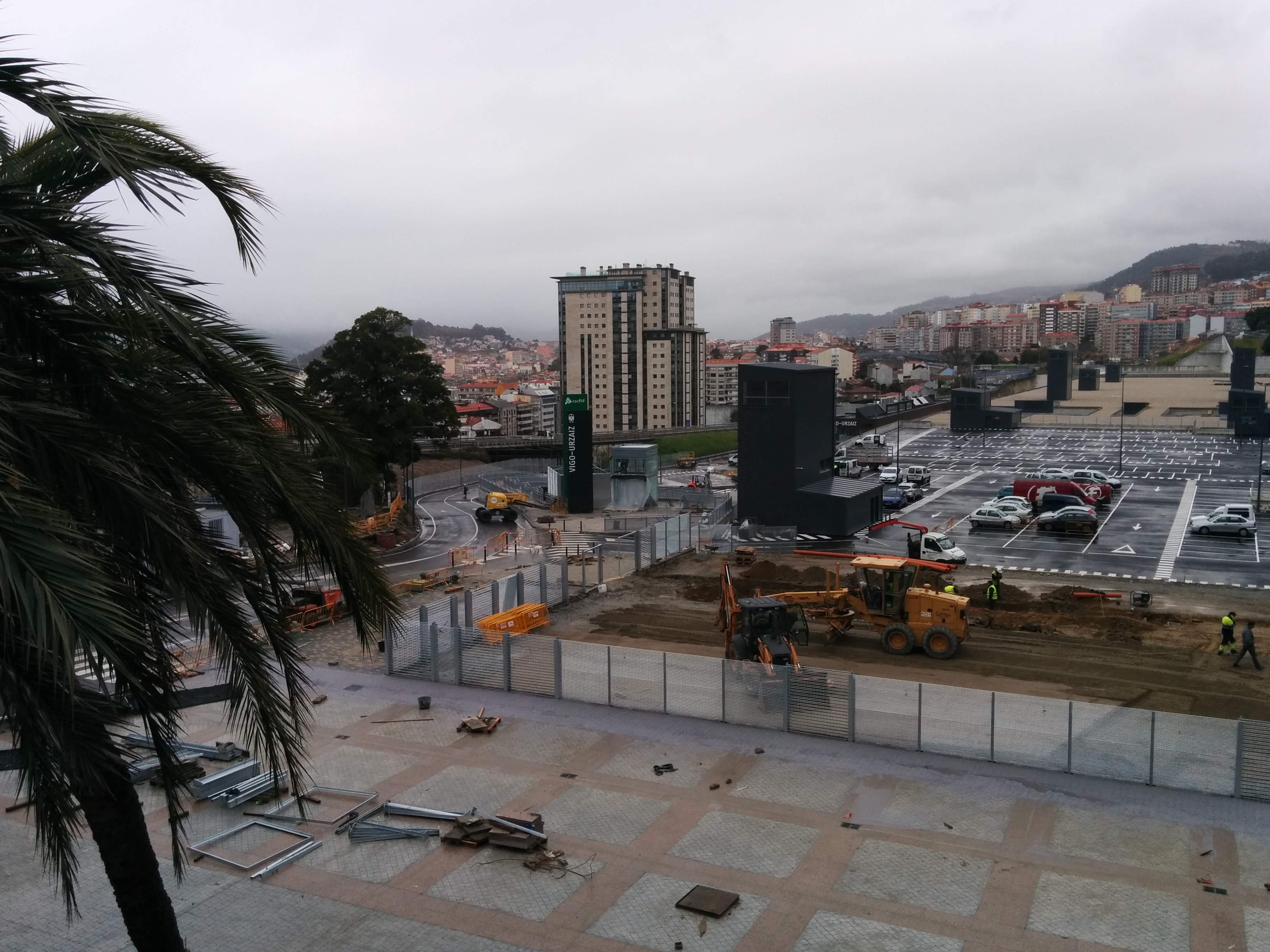 Vigo Urzaiz Station